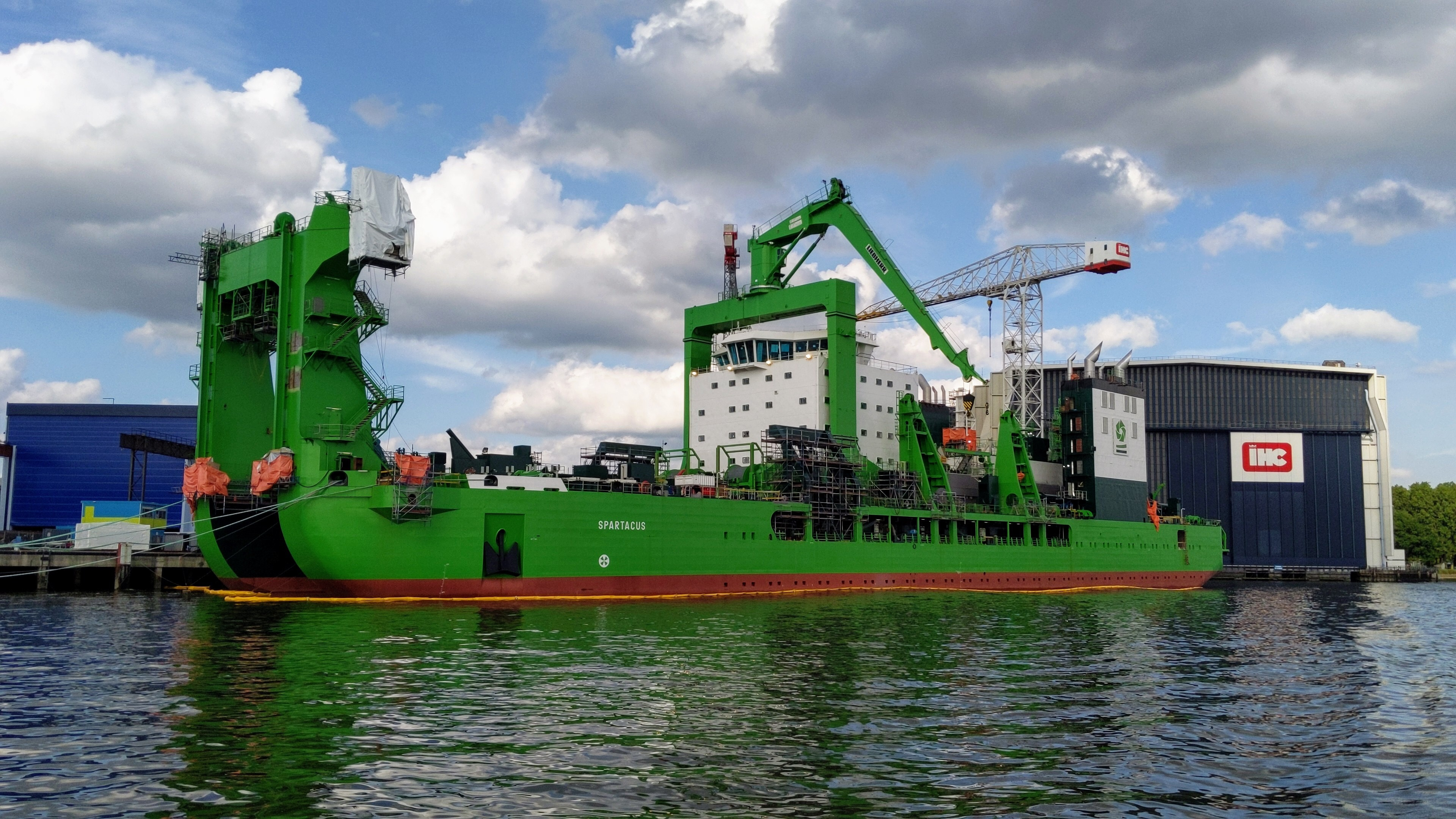 Spartacus cutter suction dredger during final construction at Royal IHC In Rotterdam.